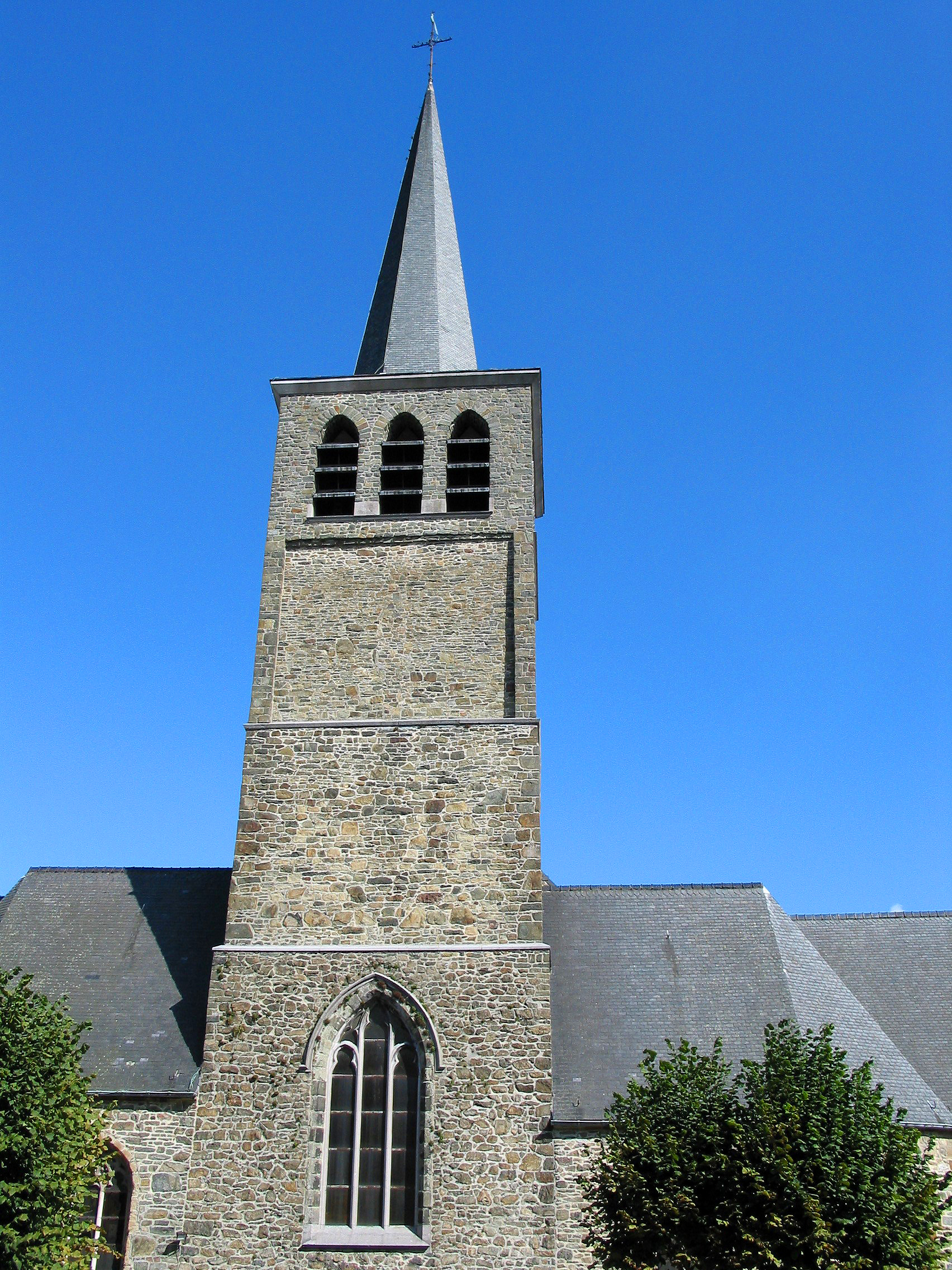 Lessines (Belgium), the Saint Peter’s church (XII/XXth centuries).